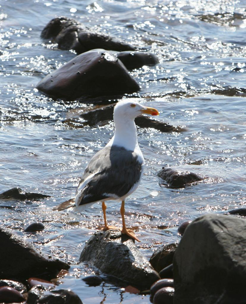 The Yellow-footed Gull, Larus livens. Isla San Estaban